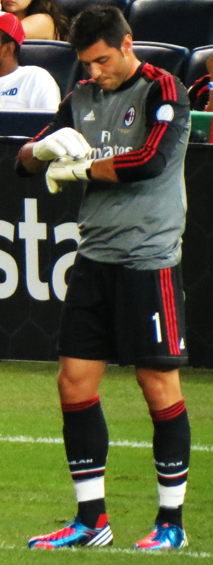 Marco Amelia of A.C. Milan playing for A.C. Milan at the 2012 World Football Challenge